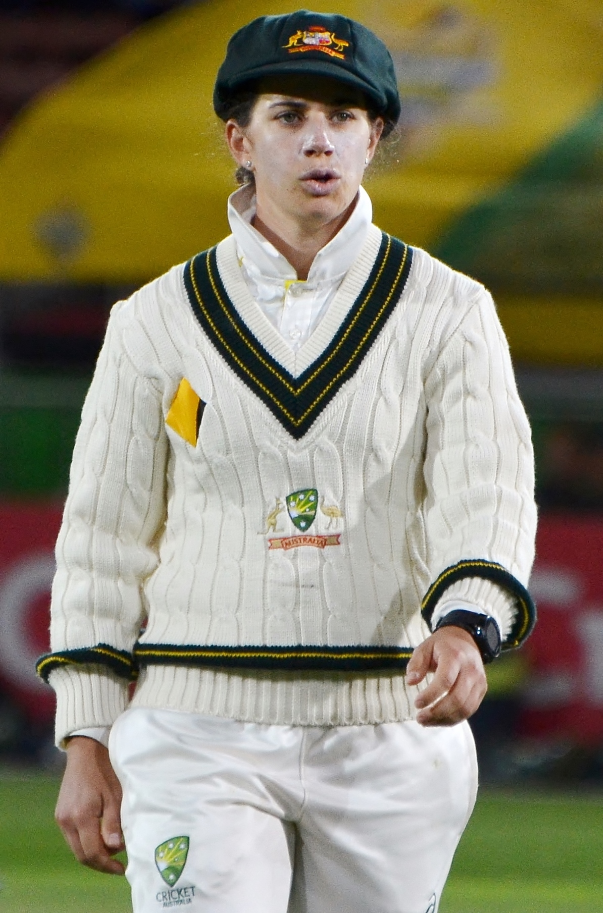 Nicole Bolton towards the end of a long day in the field on the first day of the 2017–18 Women's Ashes Test at North Sydney Oval.